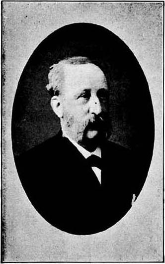 Frederik Willem van Gendt.